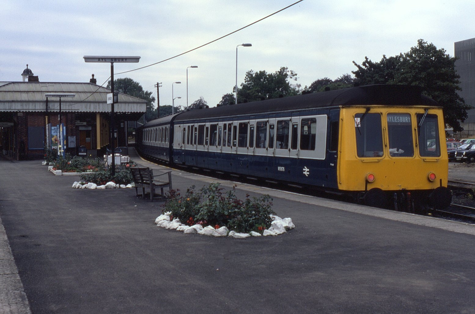 Aylesbury, 18 September 1984. Class 115 high density suburban sets that were utilised on services from London Marylebone to Aylesbury and Banbury. In addition some were based at Allerton, for the Merseyside area, and latterly Tyseley, to work in the West Midlands. Built by BR at Derby Works in the early 1960s, they normally ran as 4-car sets, although in the 1980s some DMBS vehicles had a corridor connection fitted and were paired with redundant class 108 trailers from elsewhere to form 2-car power-trailer sets, which were used on lighter loaded services or to strengthen 4-car services to 6 vehicles, where 8 were not justified. They were serviced at Marylebone depot (for the Chiltern routes) and following closure of the depot maintenance was transferred to Bletchley until finally, following closure of that depot, the remaining sets were despatched to Old Oak Common. Withdrawn by 1992, they were largely replaced by class 165s and 168s.